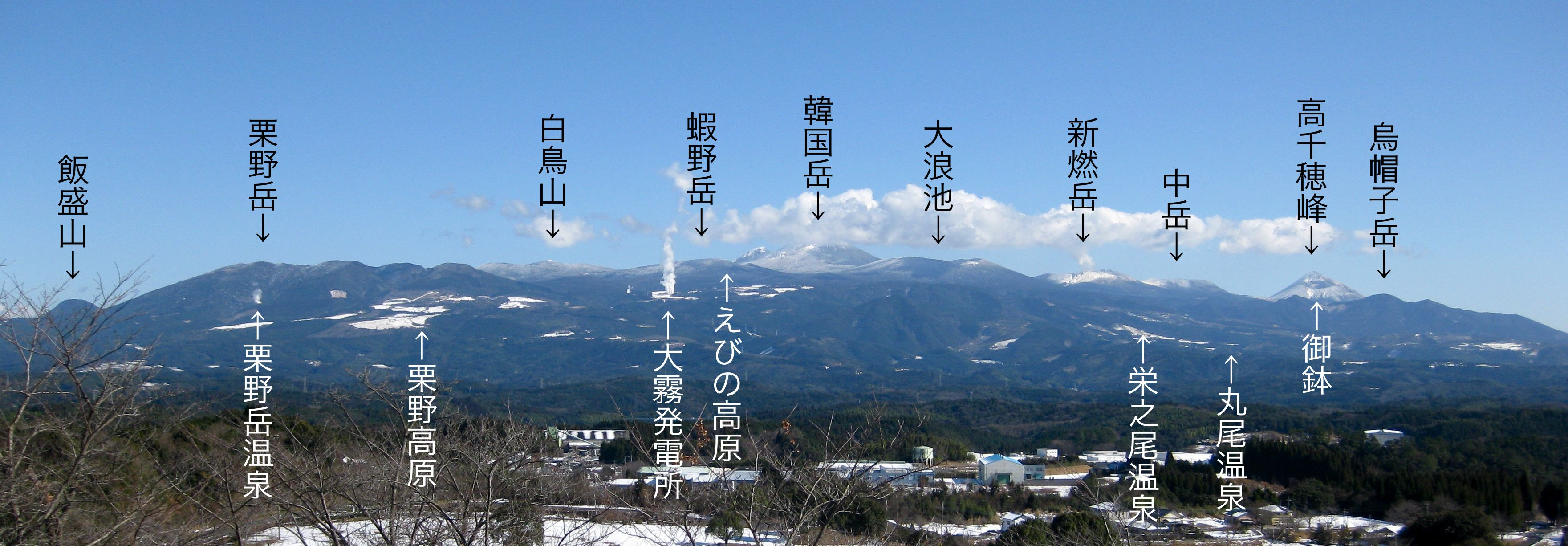 Mount Kirishima from Maruoka of Yokogawa in Kagoshima, Japan